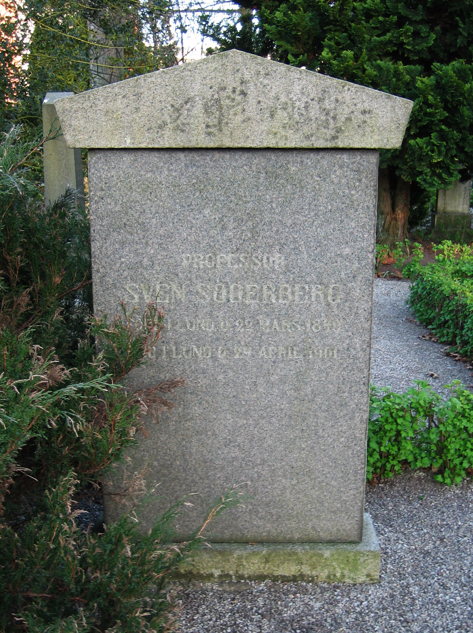 Grave of swedish professor Sven Söderberg (1949-1901). Photo taken at Norra kyrkogården, Lund, Sweden, by the uploader.